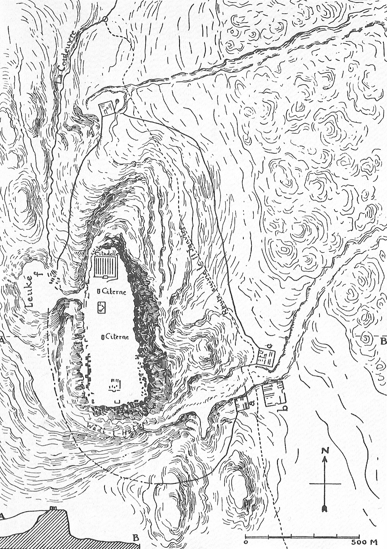 General map of Masada and surroundings.